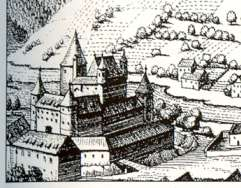 Castle Schwertberg in Upper Austria, drawing from M. Vischer 1674